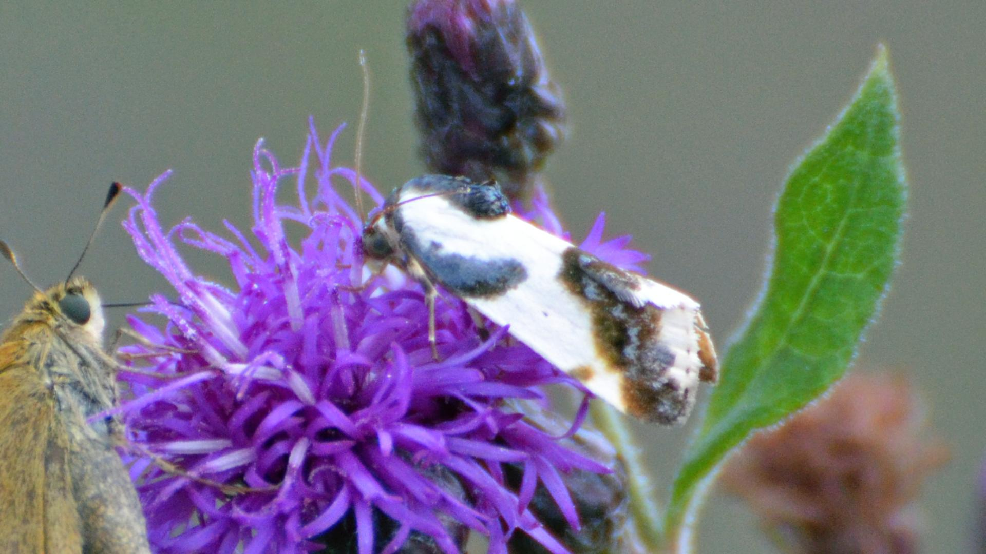 Shaw Nature Reserve in Gray Summit Missouri on 8/25/13